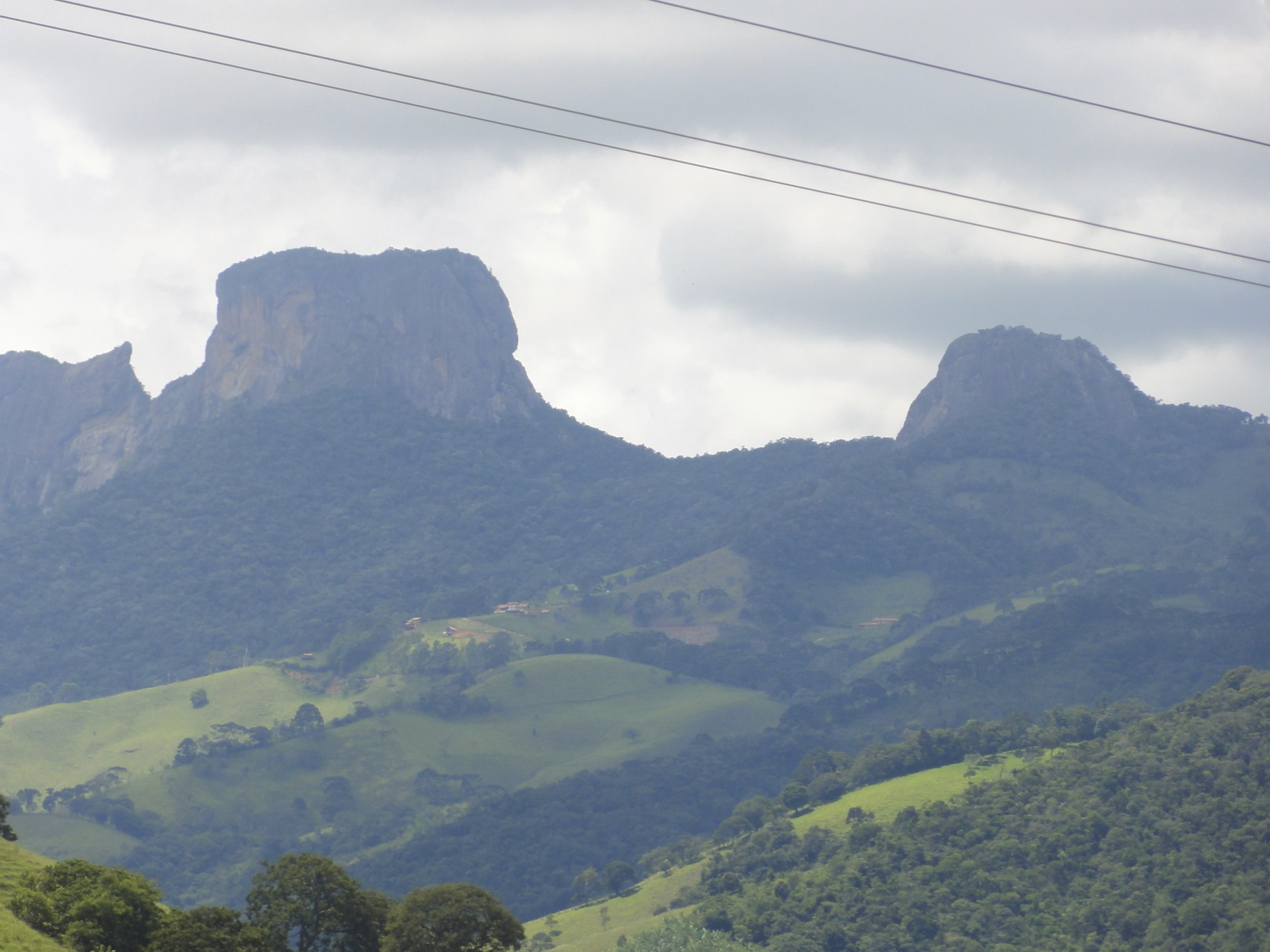 Bauzinho, Pedra do Baú, and Ana Chata — landmark rock formations of the Pedra do Baú complex, in the Serra da Mantiqueira, São Paulo, Brazil. Atlantic Forest habitat surrounding the gneiss rock formations.